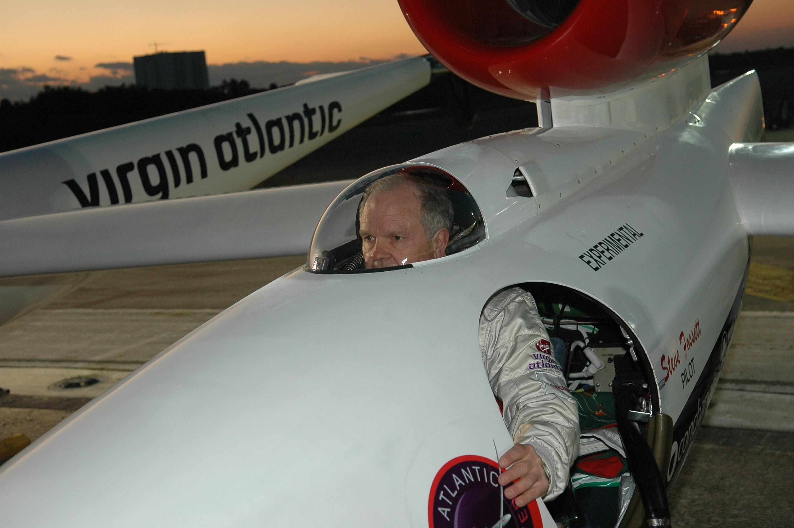 At NASA Kennedy Space Center’s Shuttle Landing Facility, Steve Fossett, seated in the Virgin Atlantic GlobalFlyer cockpit, checks visibility and head space. Fossett will pilot the GlobalFlyer on a record-breaking attempt by flying solo, non-stop without refueling, to surpass the current record for the longest flight of any aircraft. This is the second attempt in two days after a fuel leak was detected Feb. 7. The expected time of takeoff is 7 a.m. Photo credit: NASA/Kim Shiflett (Feb. 8, 2006)